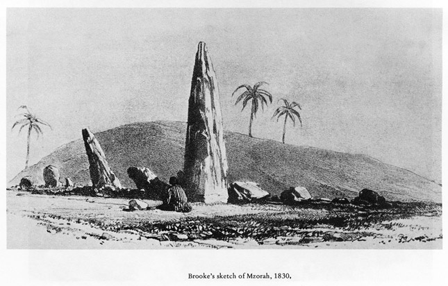 Brooke's sketch of Mzorah, 1830 The Mysterious Moroccan Megalithic Menhirs of Mzora